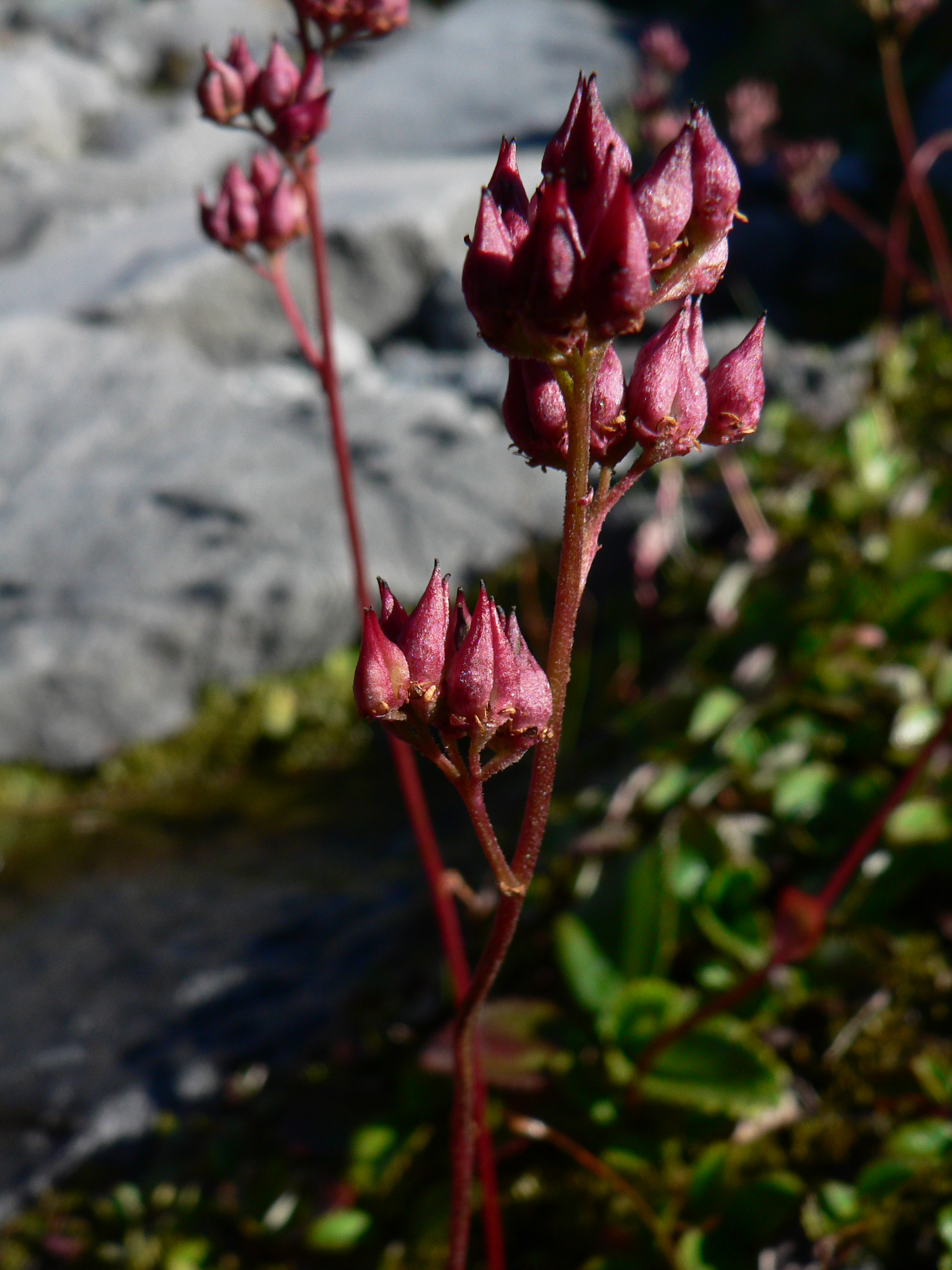 Leatherleaf Saxifrage